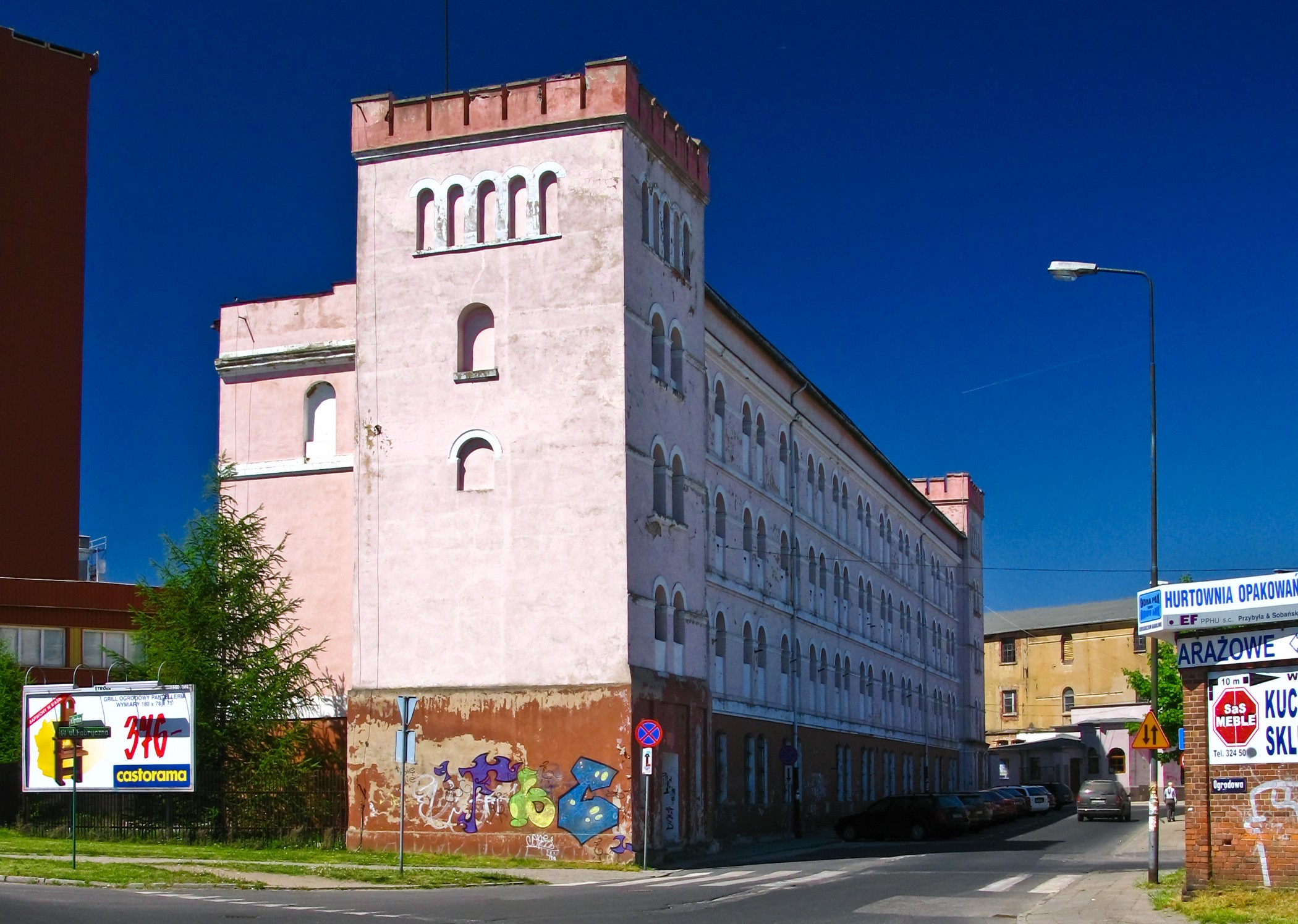 Fabryczna street